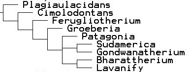 Cladogram of the Allotheria